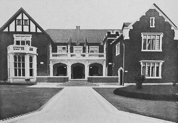 The Club Ferro Carril Oeste headquarters in 1930, located on 350 García Lorca Street, in the Caballito section of Buenos Aires. The building was significantly altered during construction of a new wing in the 1950s.